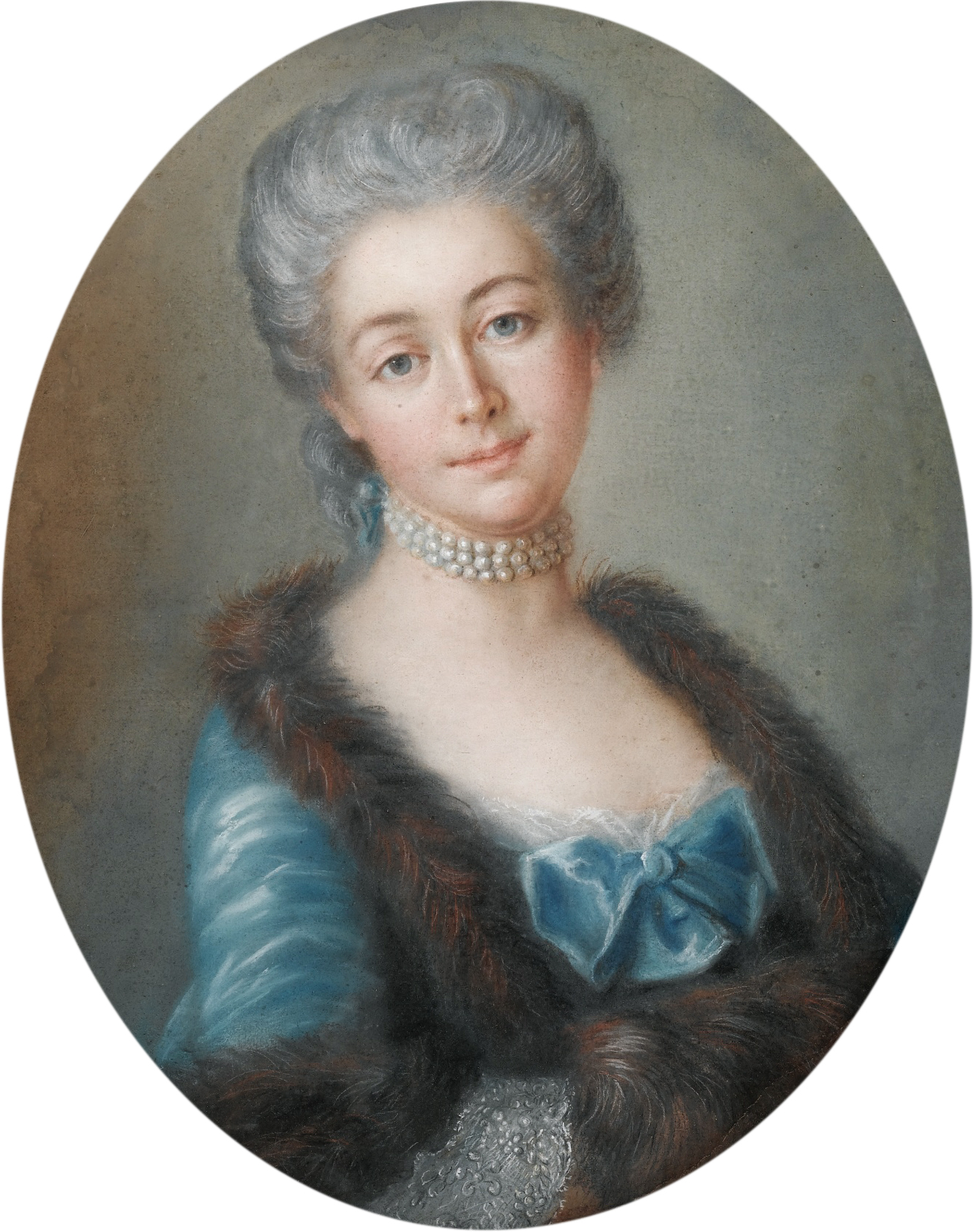 Marie Françoise L'Huillier de La Serre pastel 63,5 x 52,5 cm